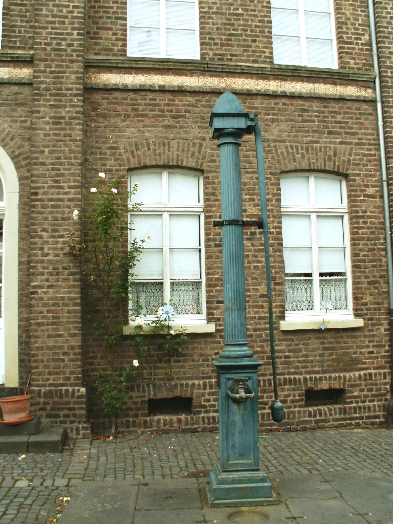 Ancient Water Pump in Kaster, Germany